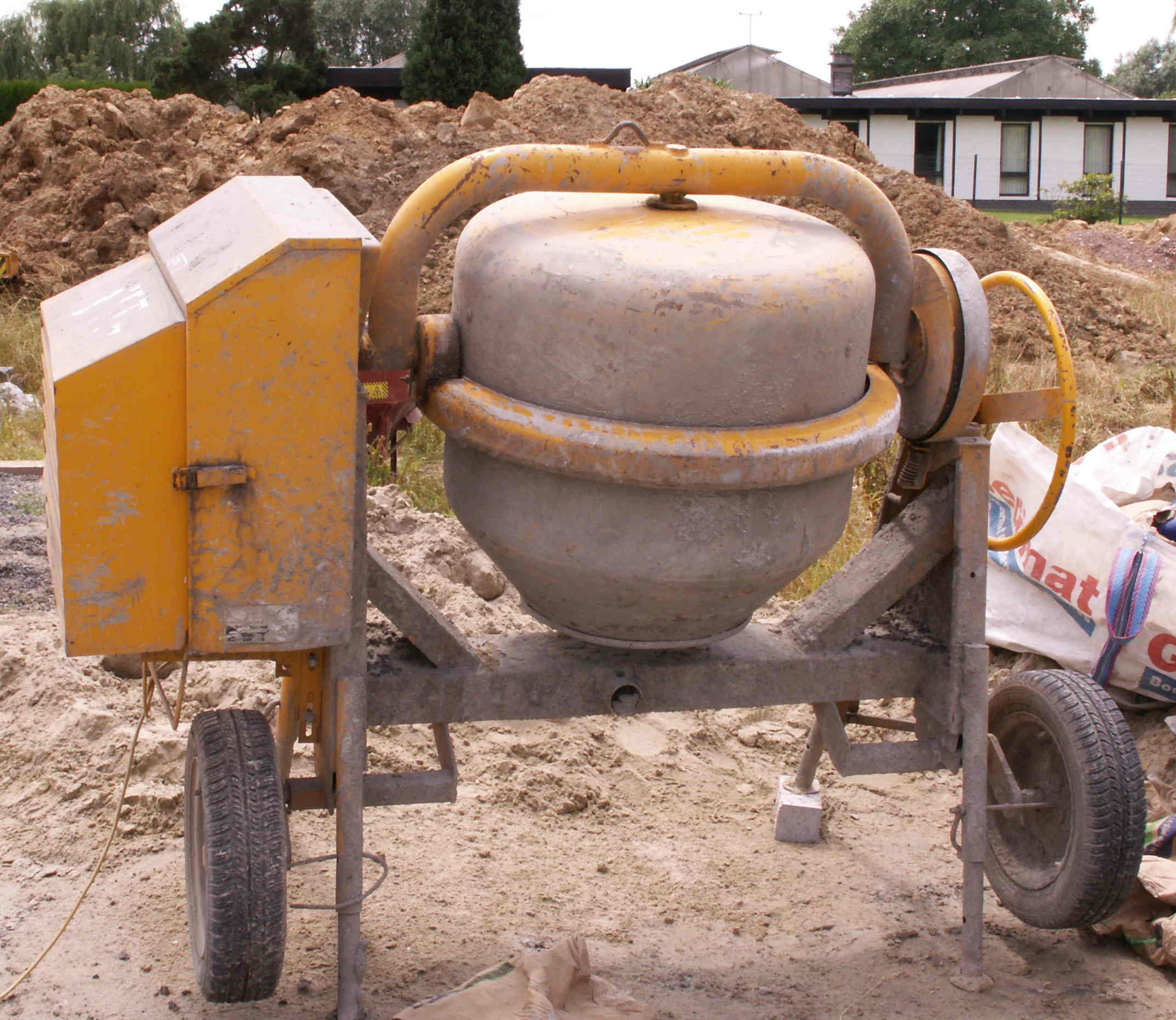 A picture of a (older model) concrete mixer. This mixer is electrically powered and thus does not pollute the surrounding atmosphere. (Note the yellow electrical wire!)